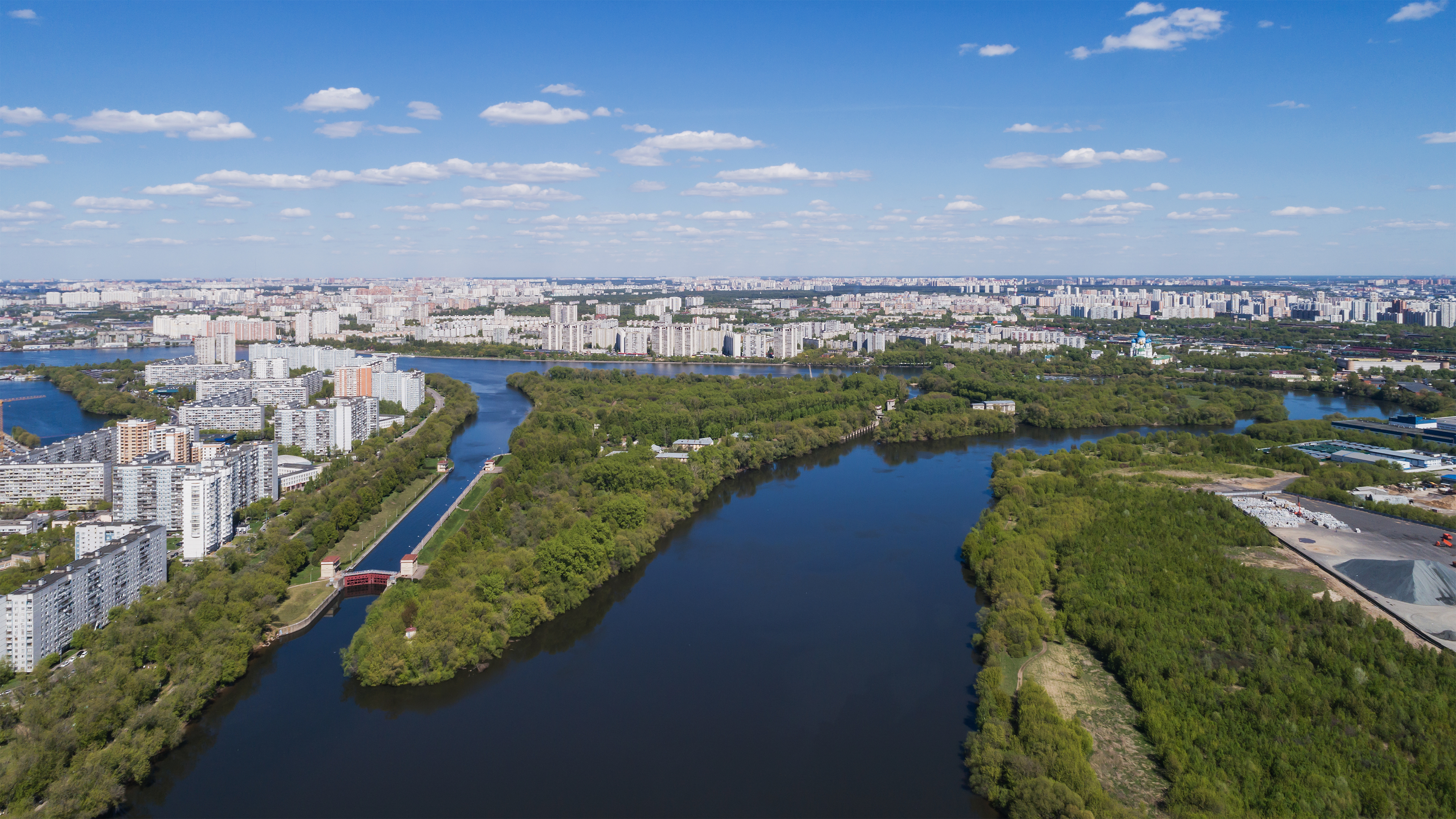 Shlyuzy settlement at canal locks near Pererva in Moscow (Russia).